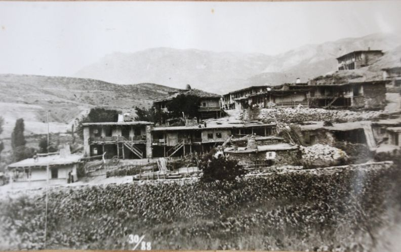 Quchuq-Uzen village, Crimea The beginning of the XX century